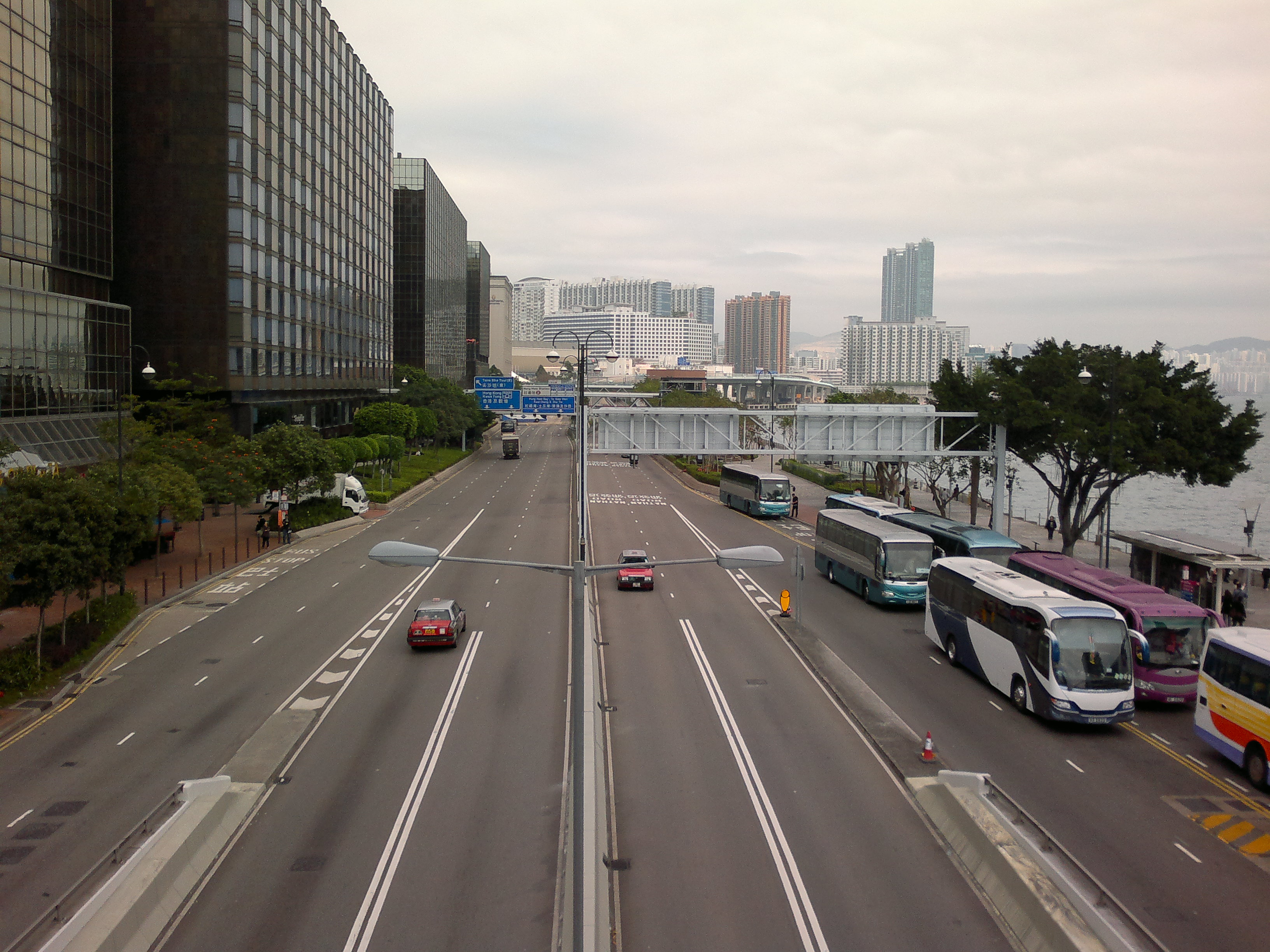 Salisbury Road towards East Tsim Sha Tsui